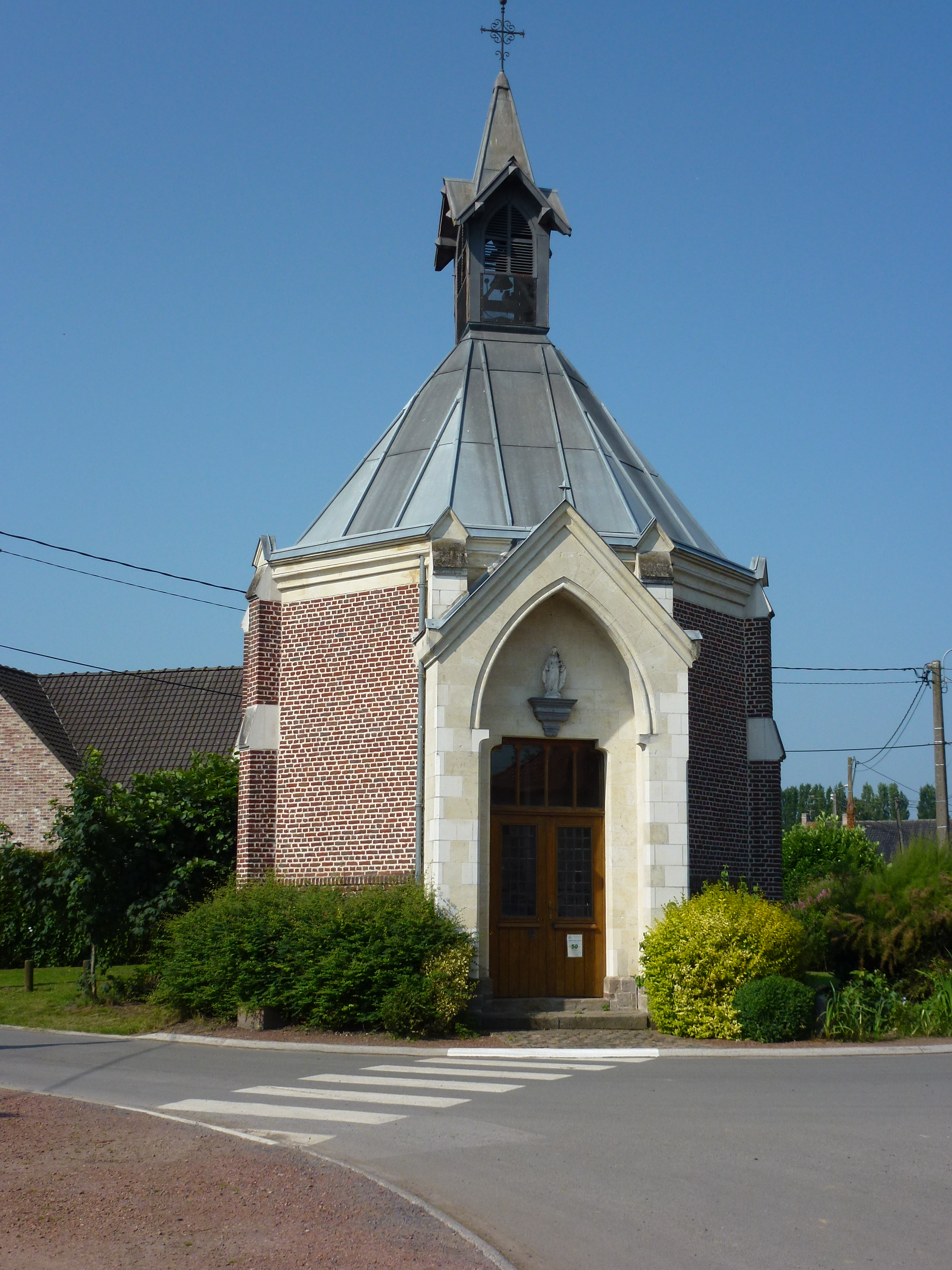 Bousignies (Nord, Fr) chapelle du calvaire ext.